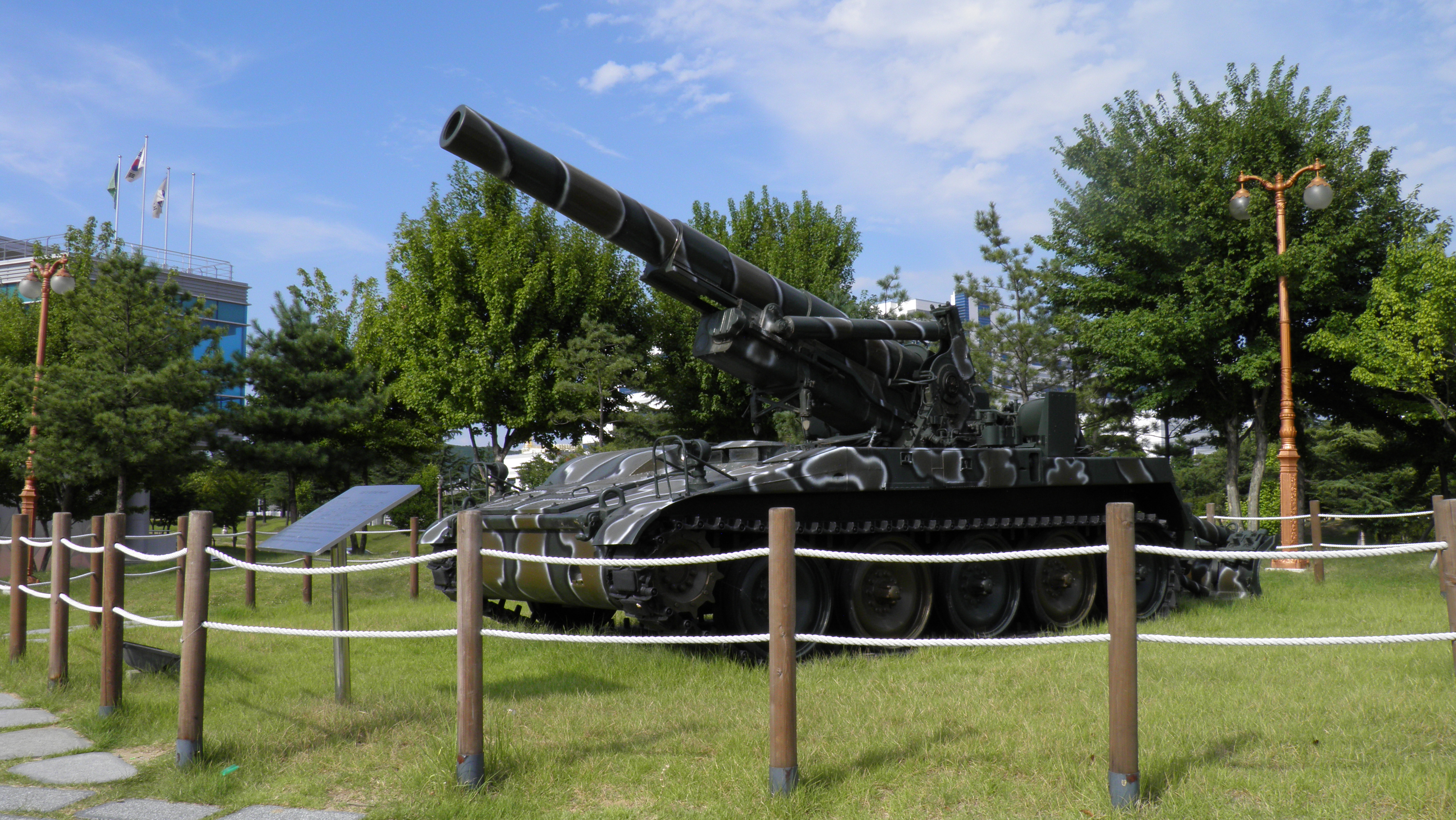 8 inch self-propelled M110 on display in Dongrak Park in Gumi, South Korea